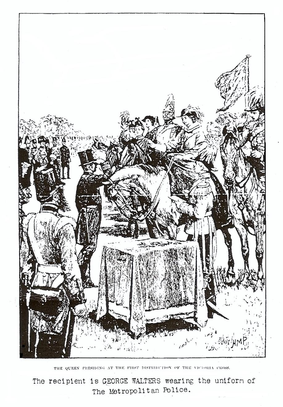 Drawing of Queen Victoris awarding George Walters with the Victoria Cross at Hyde Park on 26 June 1857